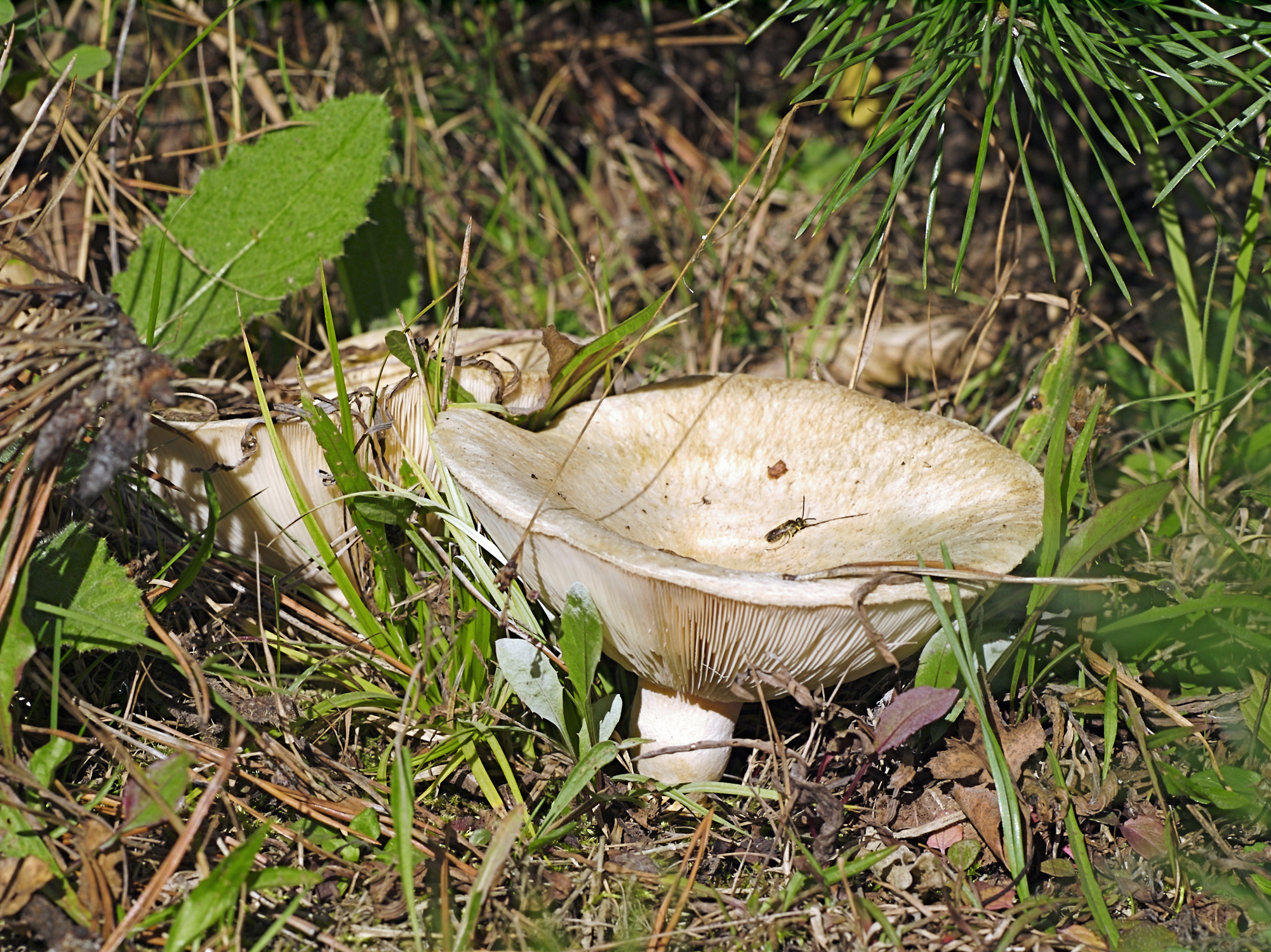 Fleecy Milk-cap (Lactarius vellereus), Chemnitz, Germany